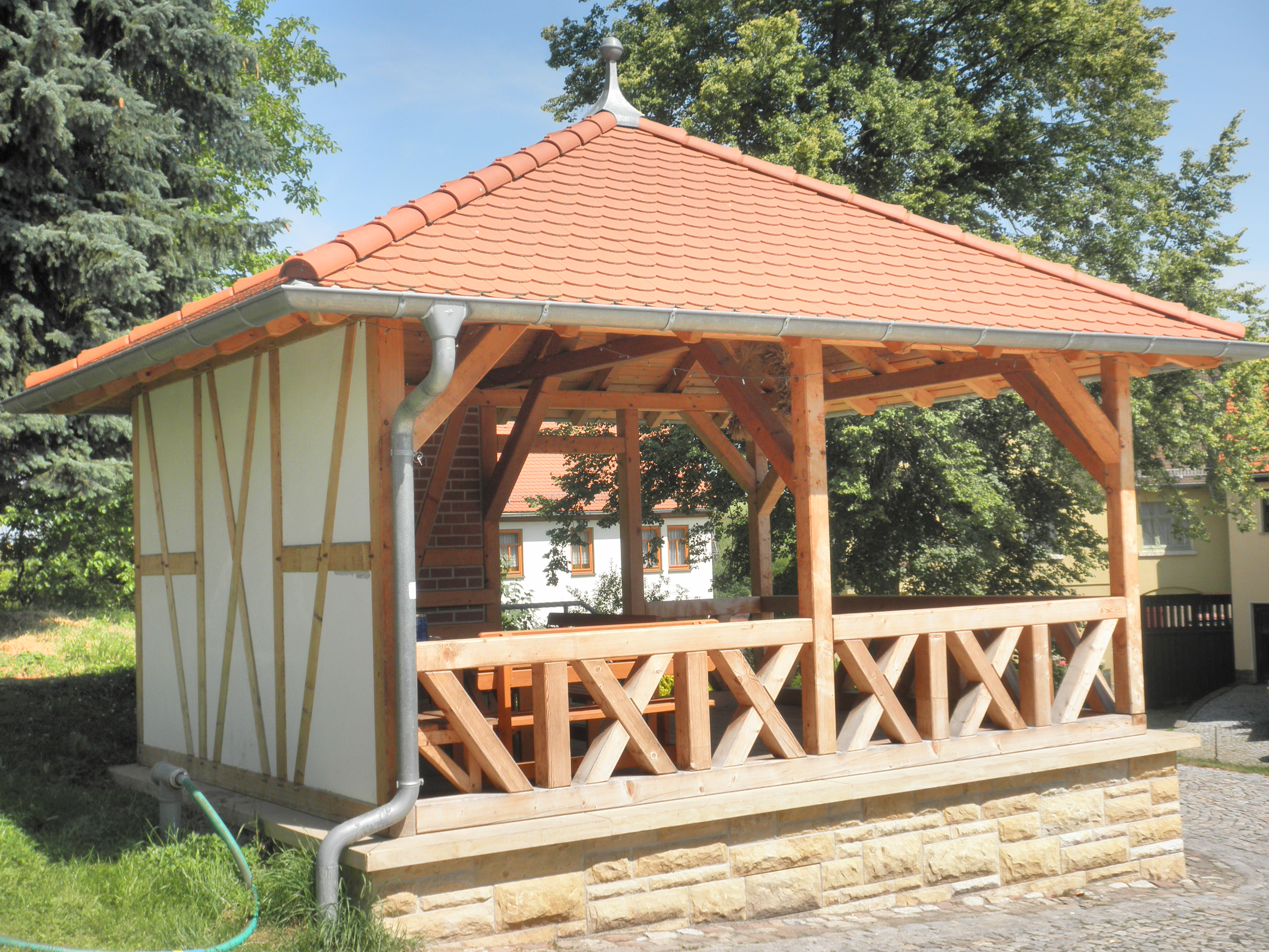 Fountain House in Tissa in Thuringia